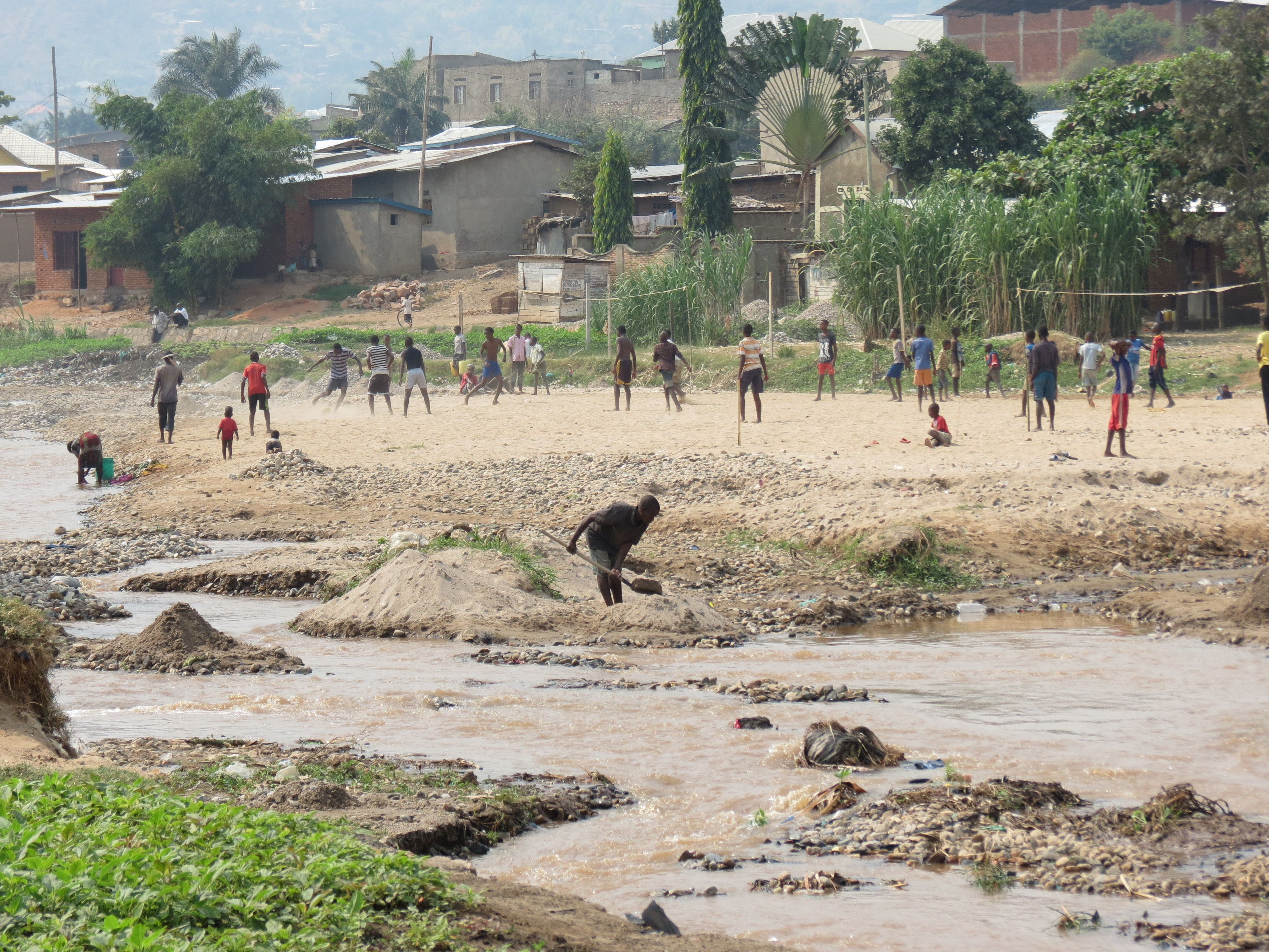 This is an image of "African people at work" from Burundi